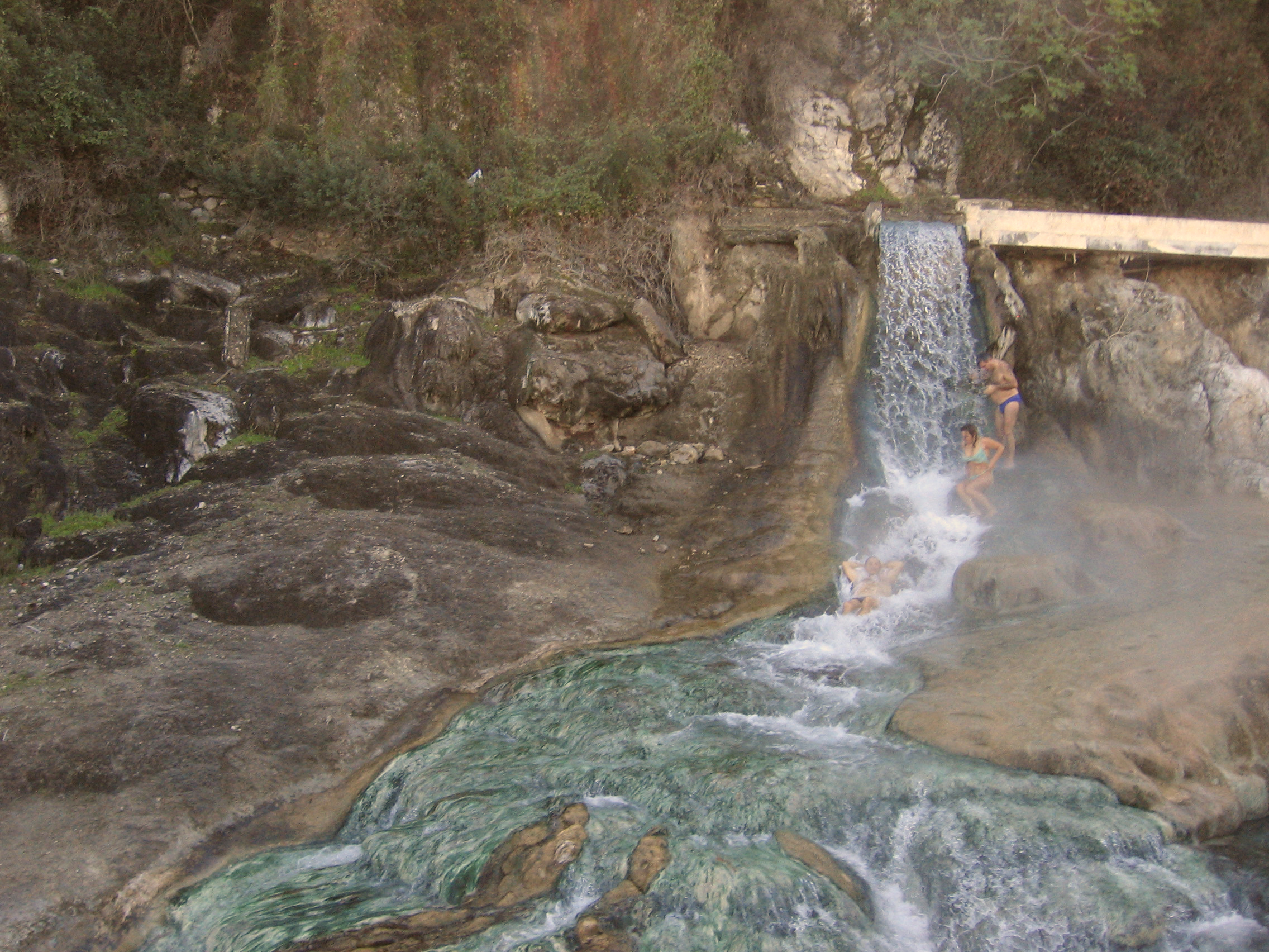 Thermopylen